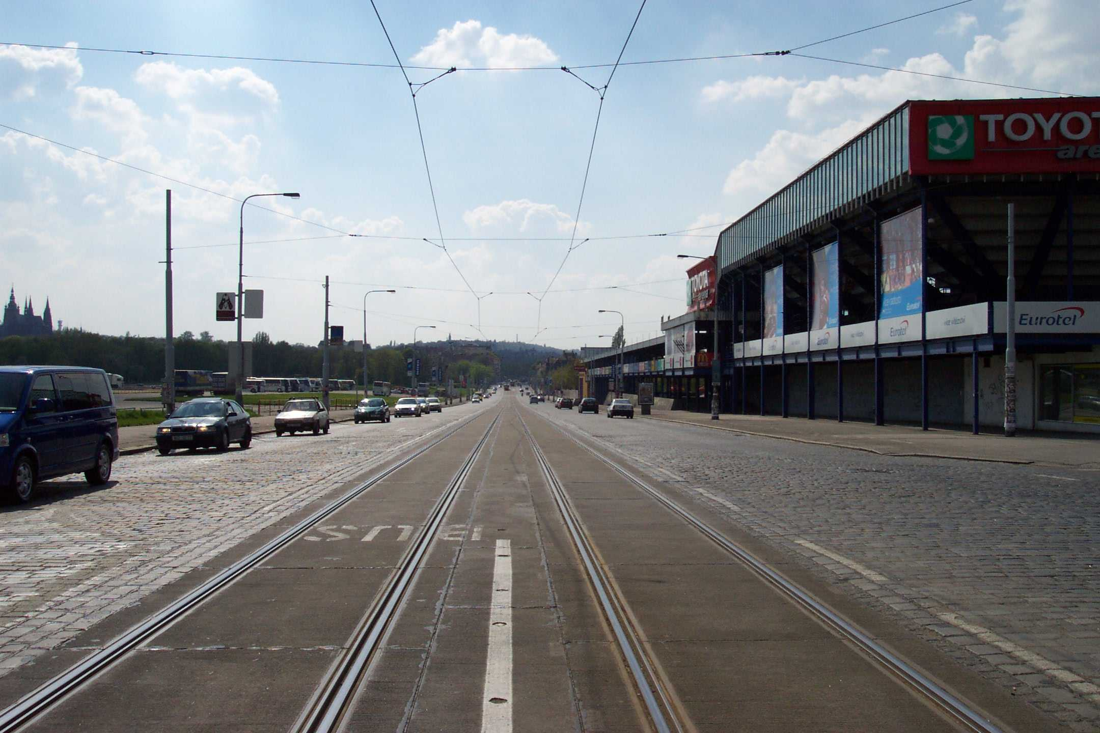 Milady Horákové street in Prague